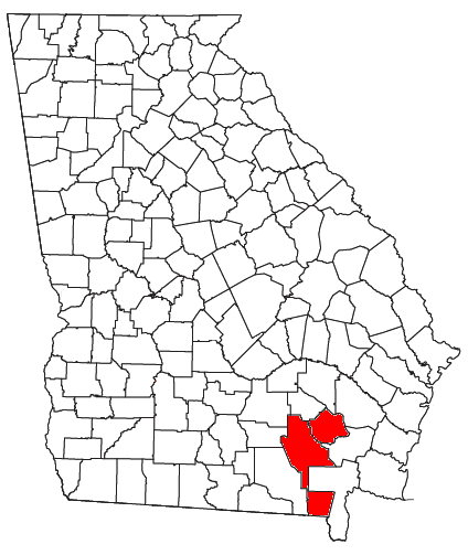 Locator map of the Waycross Micropolitan Statistical Area in the southeastern part of the U.S. state of Georgia.